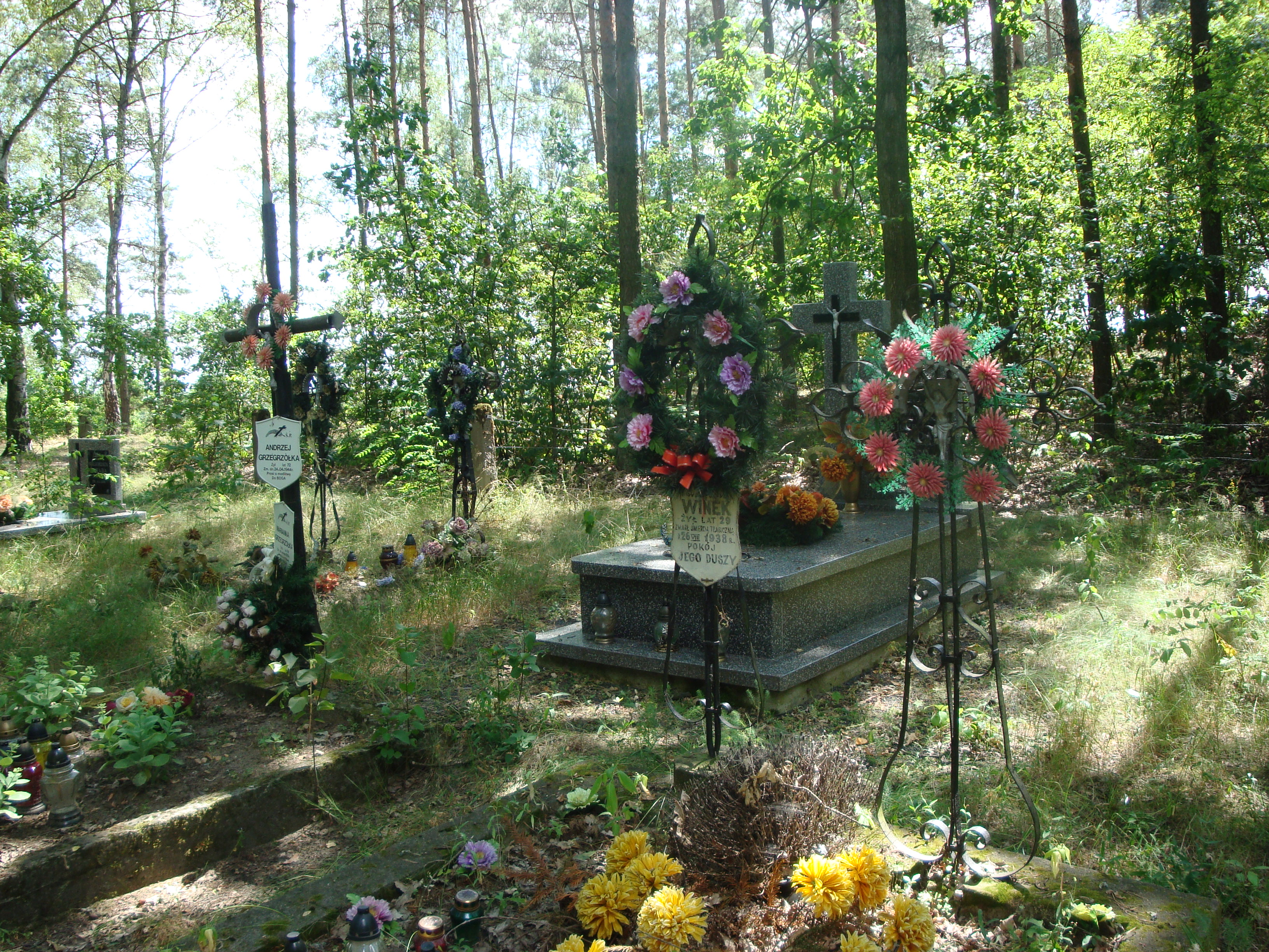 Mariavit Church cemetery in Pogorzel (Poland)